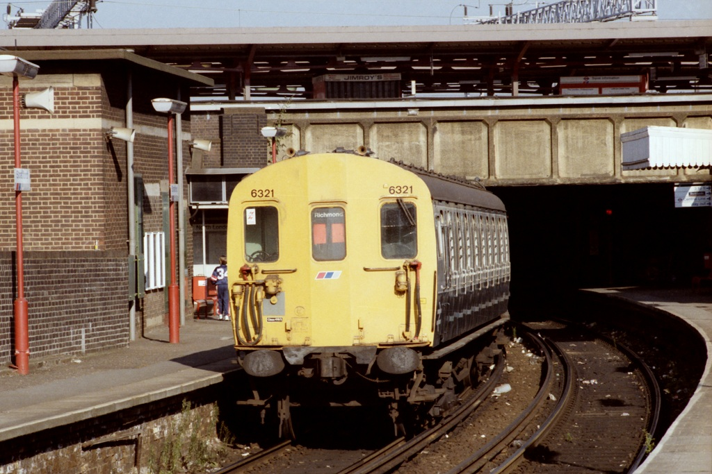 British Rail Class 416 EMU no 6321 on the North London Line at the old Stratford (low level) station.